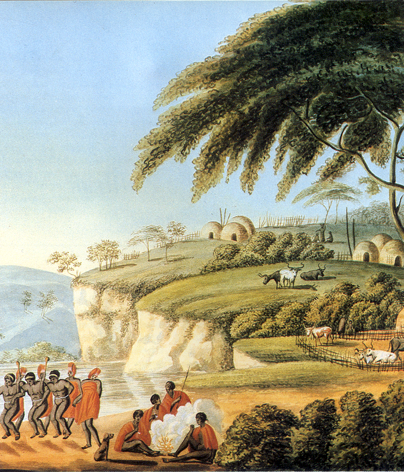 The lifestyle and dress of the Xhosa in the early 1800s.